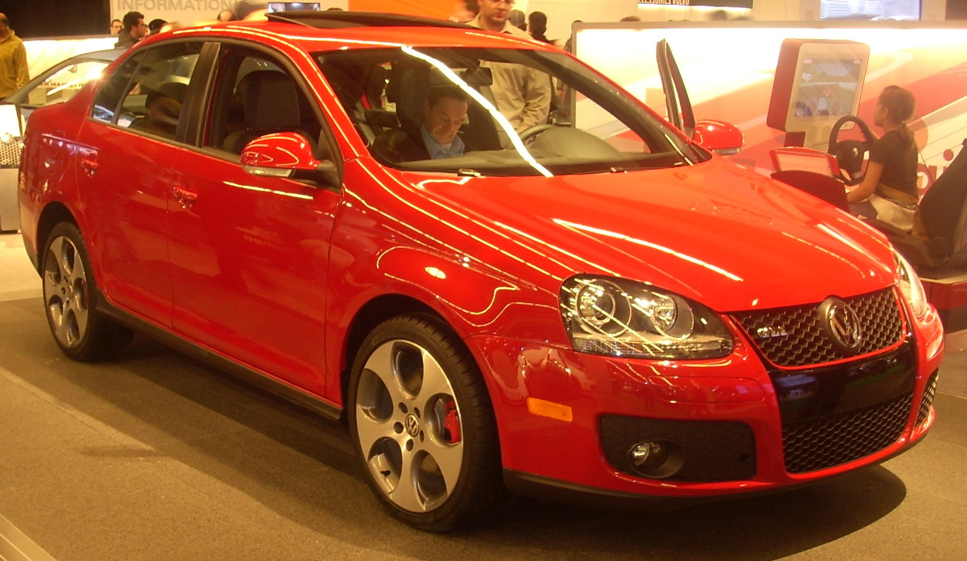 2008 Volkswagen Jetta photographed at the Montreal Auto Show.